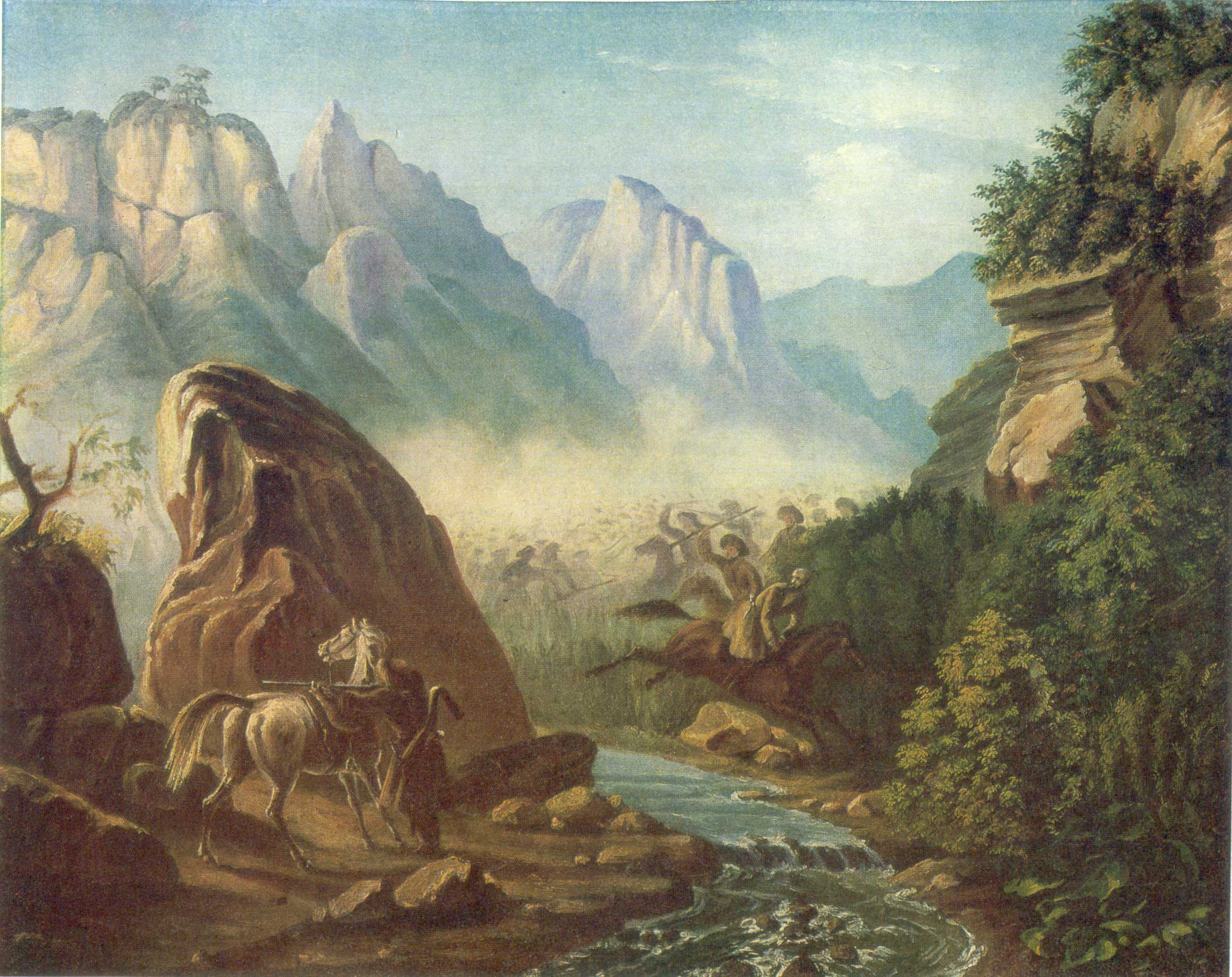 A Skirmish in the Mountains of Dagestan